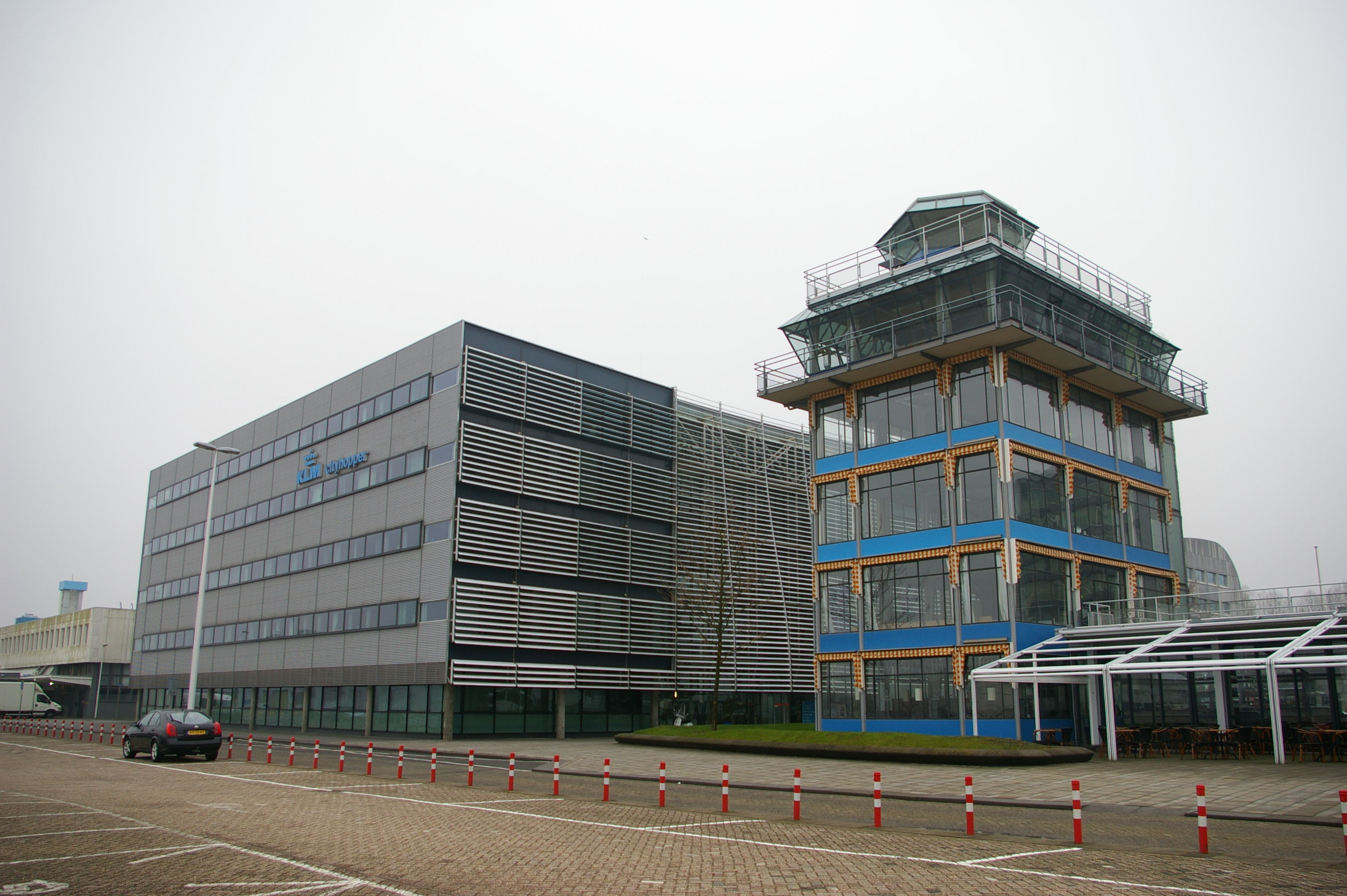 Convair Building - KLM Cityhopper and KLM Recruitment Services offices, Schiphol-Oost, the Netherlands. To the right is the (rebuilt) ATC tower of the "old" Schiphol, now a restaurant. Picture taken at the request of user WhisperToMe.